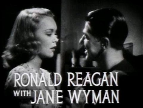 Screenshot from the trailer of the American comedy drama film Brother Rat (1938). Ronald Reagan and Jane Wyman depicted.